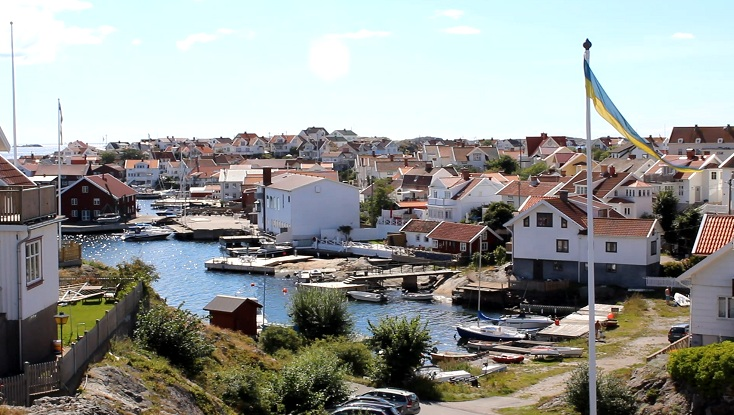 View over Klädesholmen.